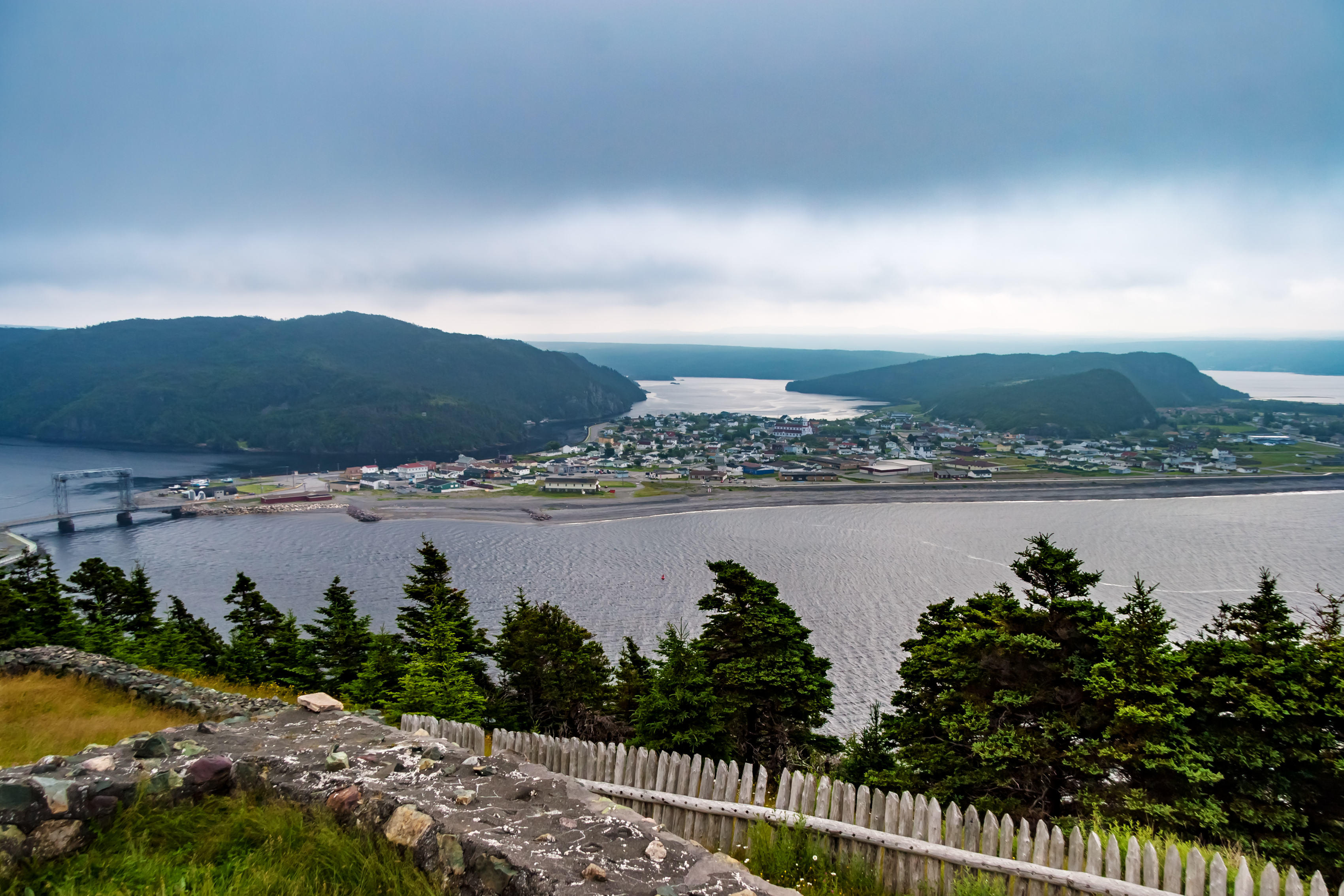 Placentia is a town on the Avalon Peninsula, Newfoundland and Labrador, consisting of the amalgamated communities of Jerseyside, Townside, Freshwater, Dunville and Argentia.